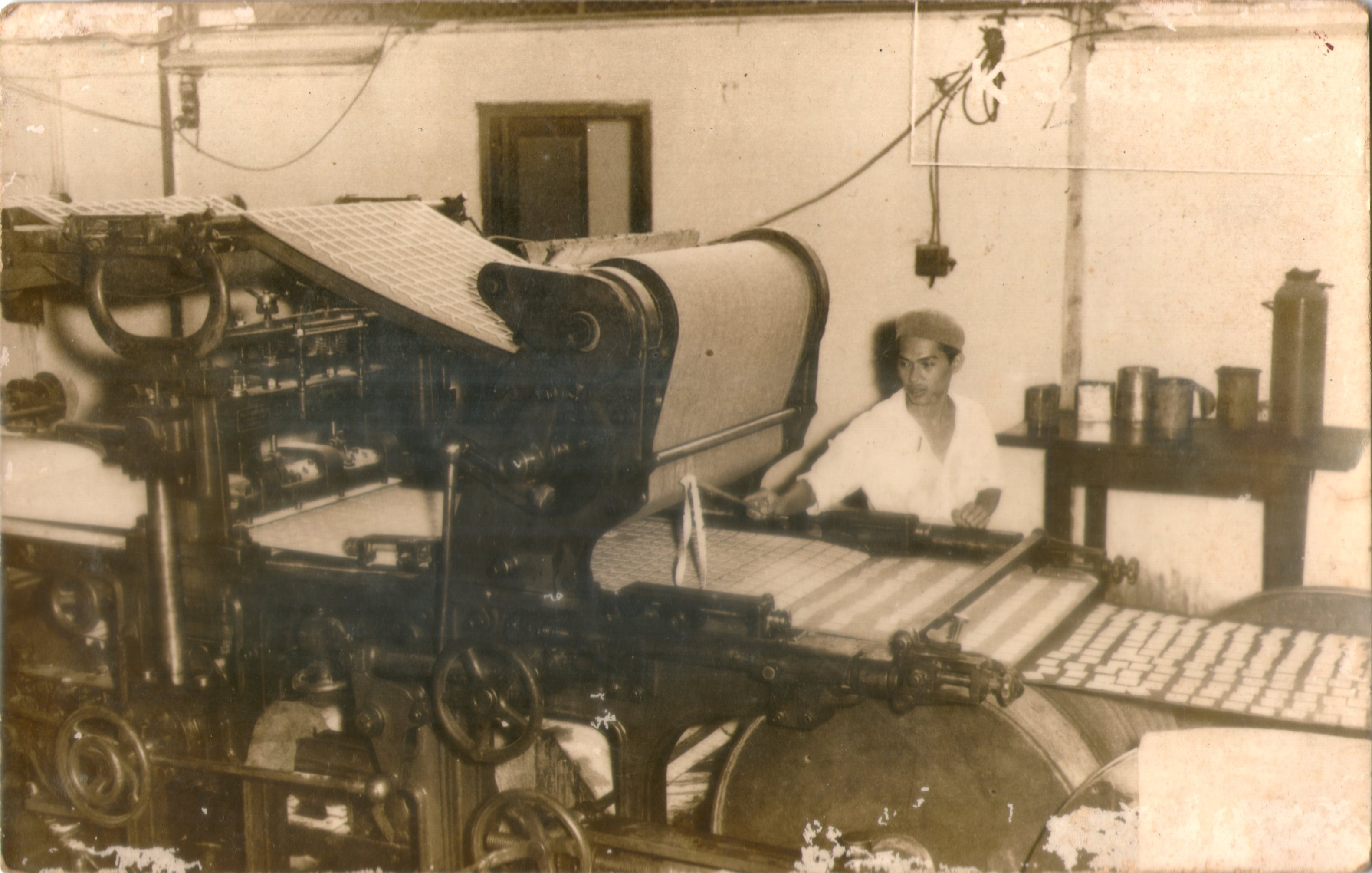 A biscuit factory in Medan. The biscuit factory company was Kim Seng Hin N.V, located in Medan.